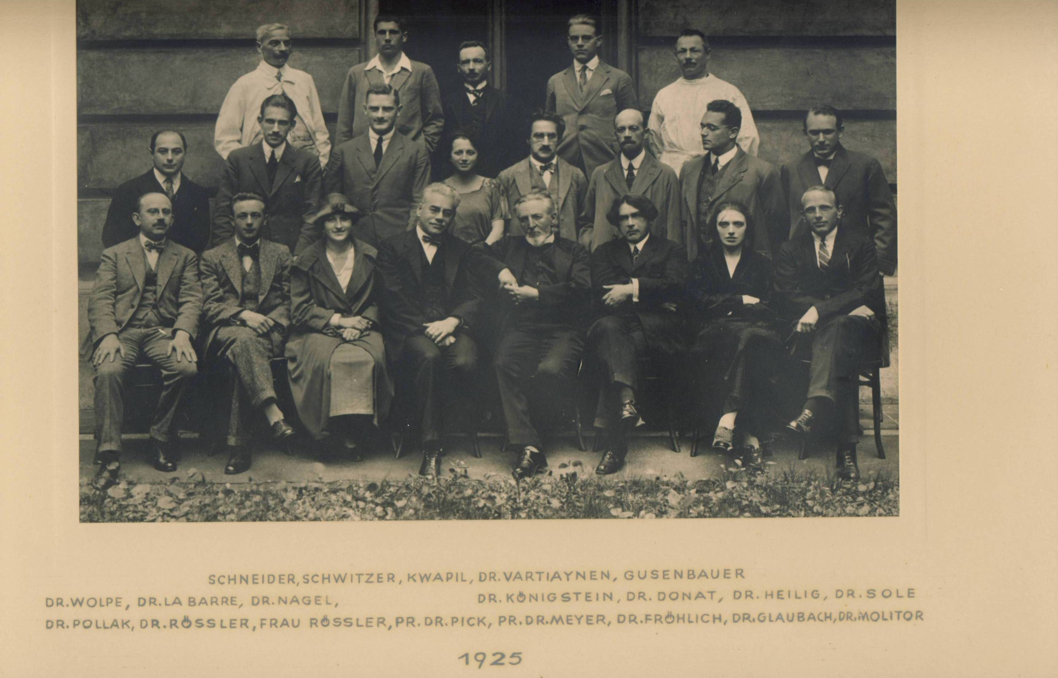 Pharmacologists of the Institute of Pharmacology, Vienna, in 1925.